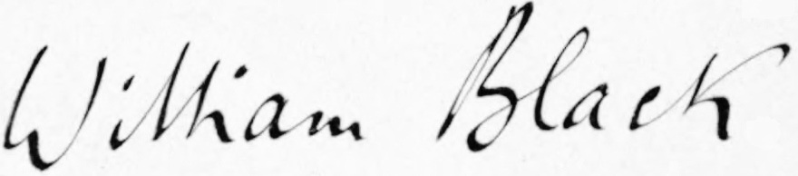 Signature of English novelist William Black